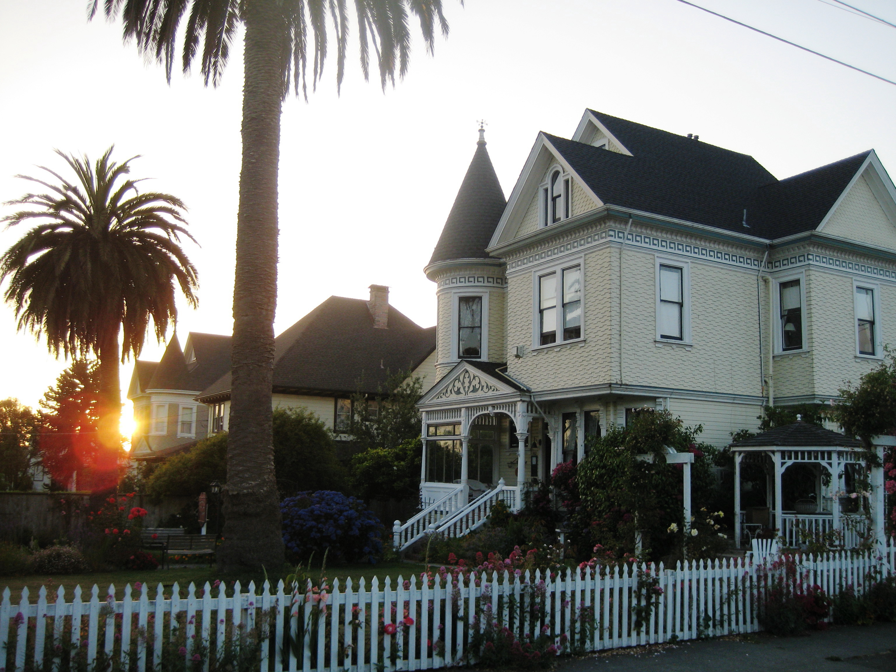 The NRHP-listed Stone House is located at 902 14th Street, Arcata, California..